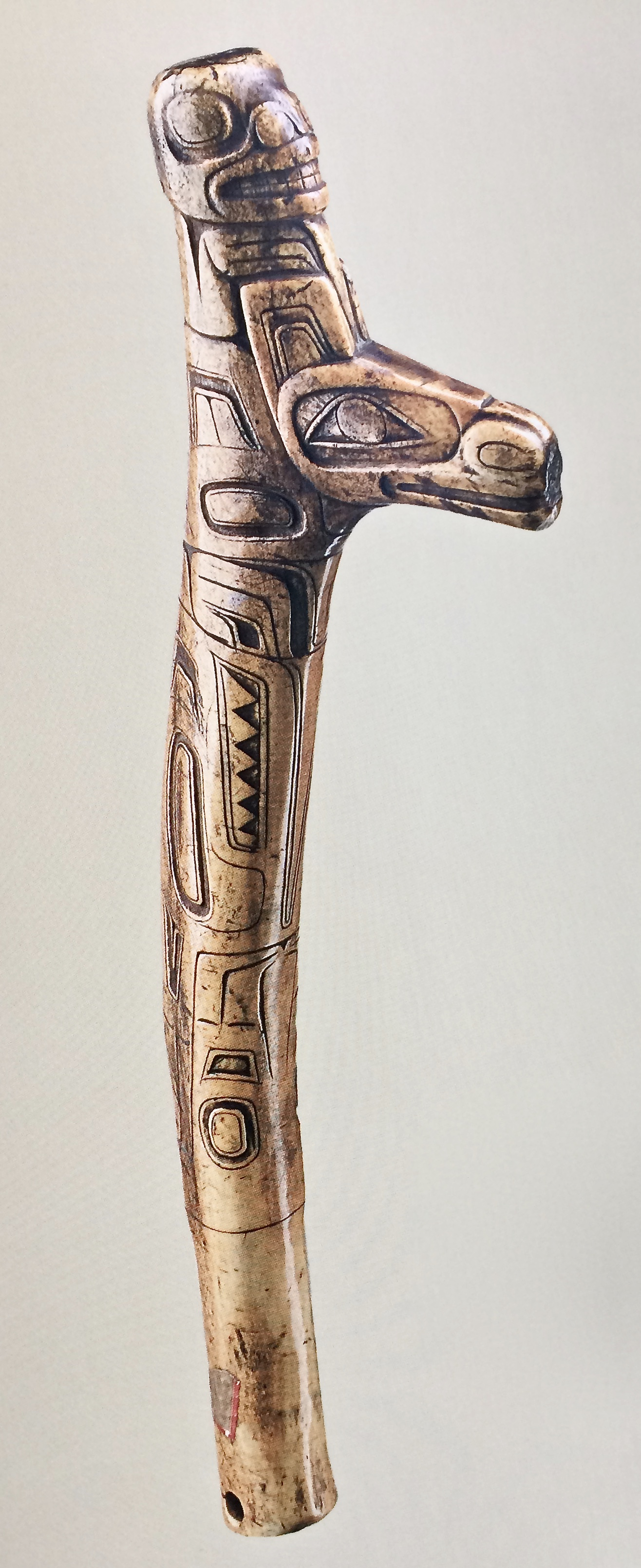 Ceremonial club of Antler bone, 18.5 in/47 cm. long. See p. 285 of book for full descrip.